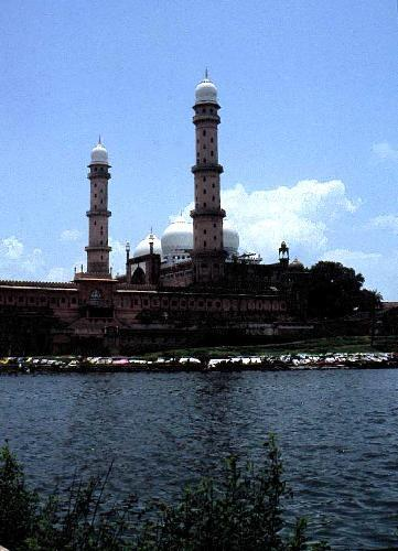 taj-ul-masjid-bhopal_india